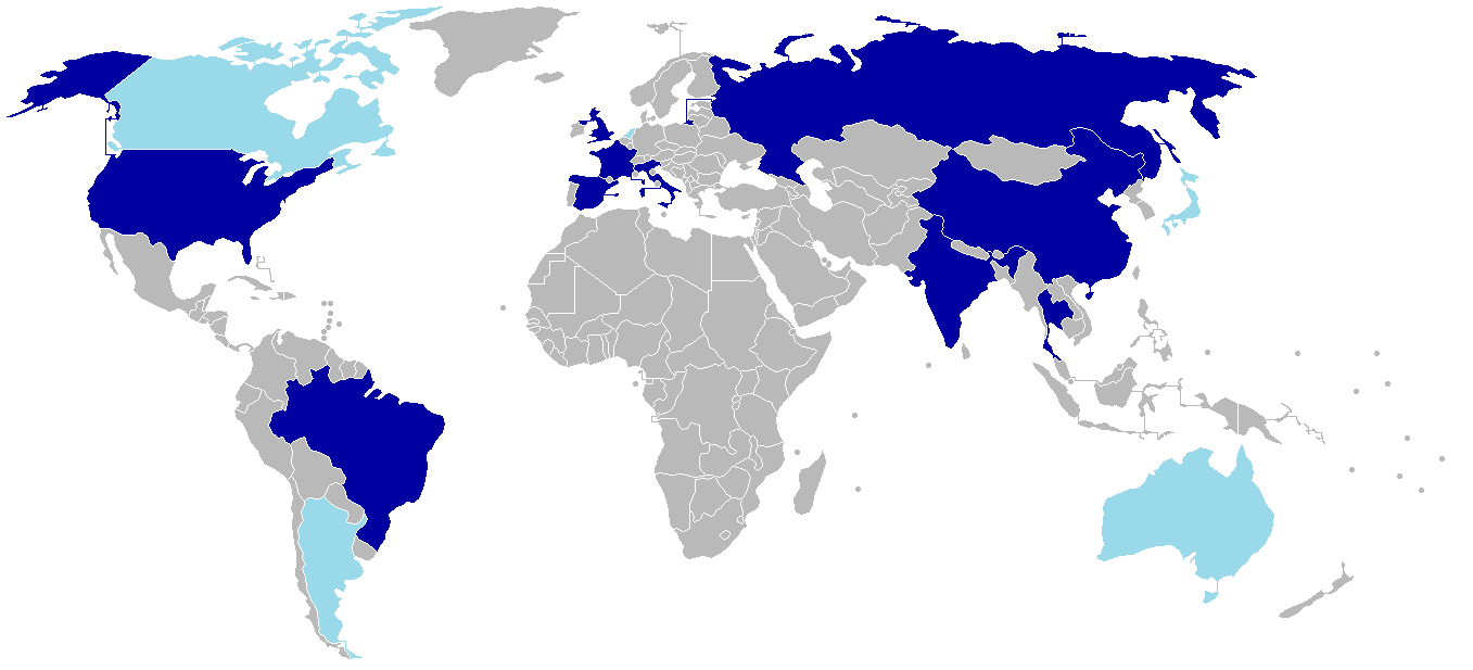 map of countries operating aircraft carriers; countries currently operating carriers in blue, countries that have historically operated carriers in light blue